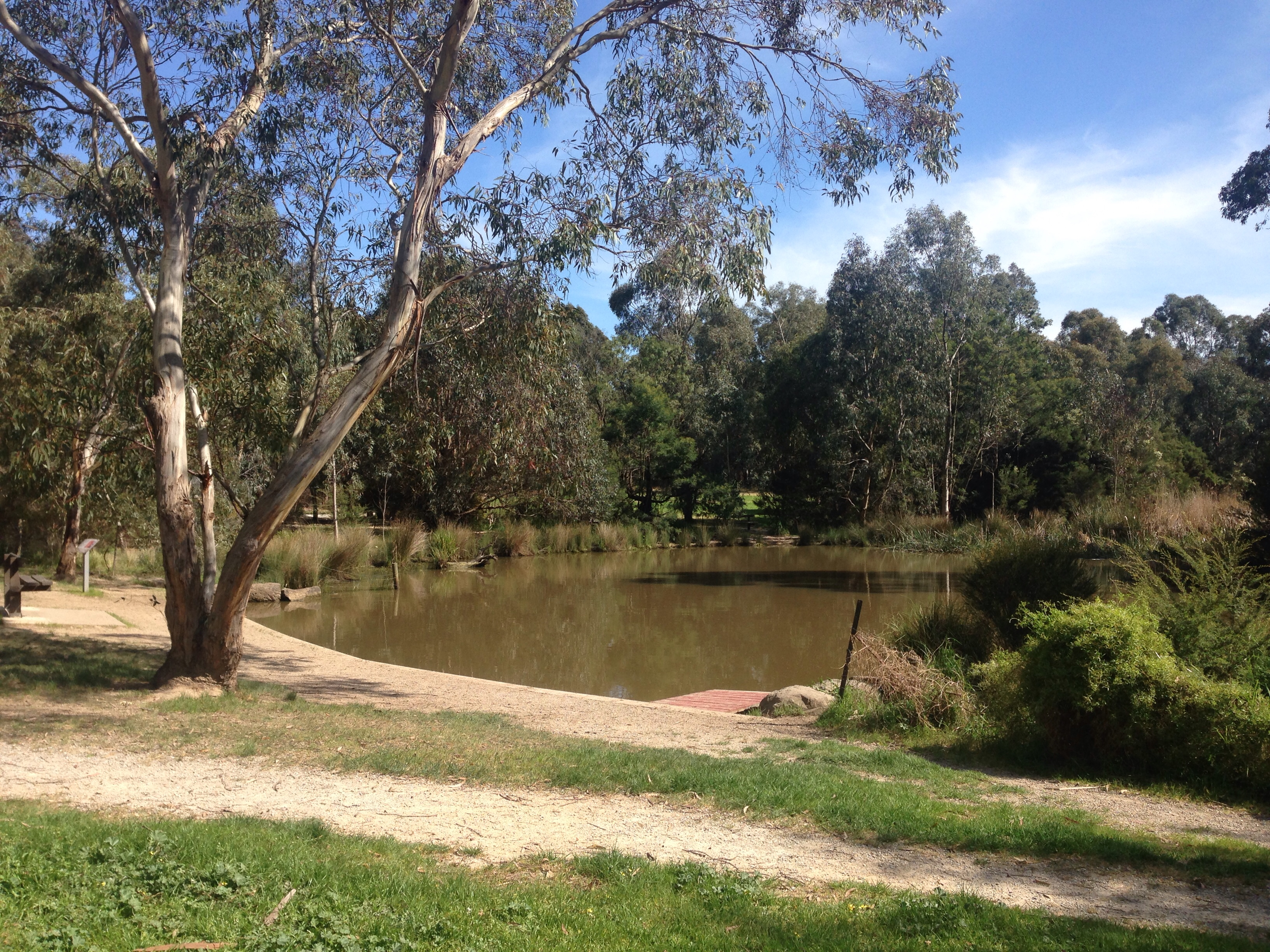 Wetlands in Koonung Creek Reserve, Balwyn North.